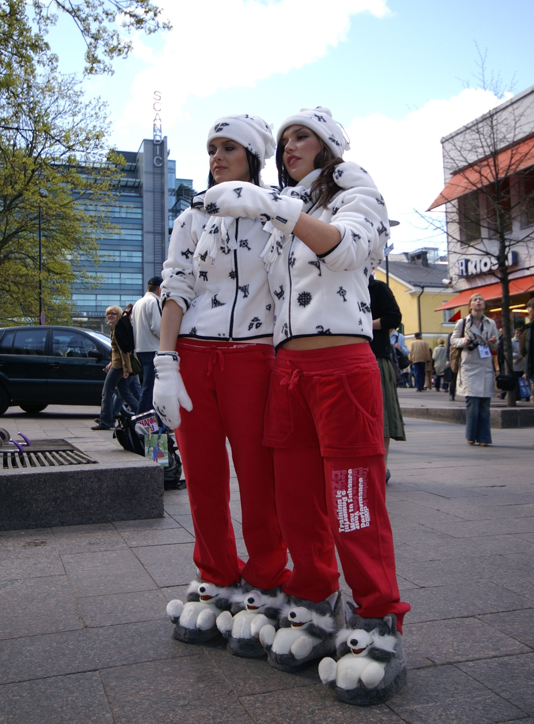 Russian girlgroup Serebro during the Eurovision Song Contest Week in Helsinki